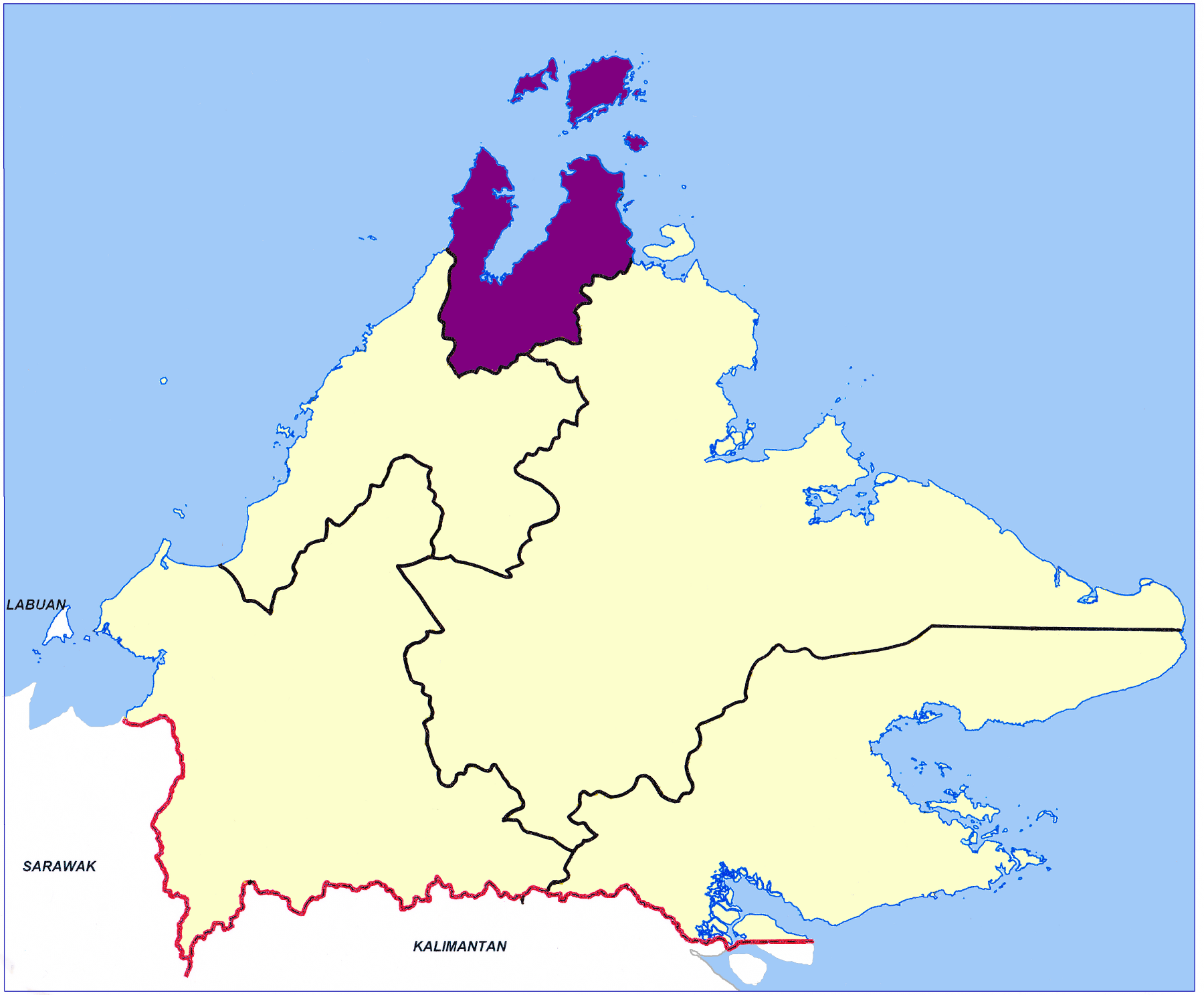 Sabah: Area covered by the Kudat Division